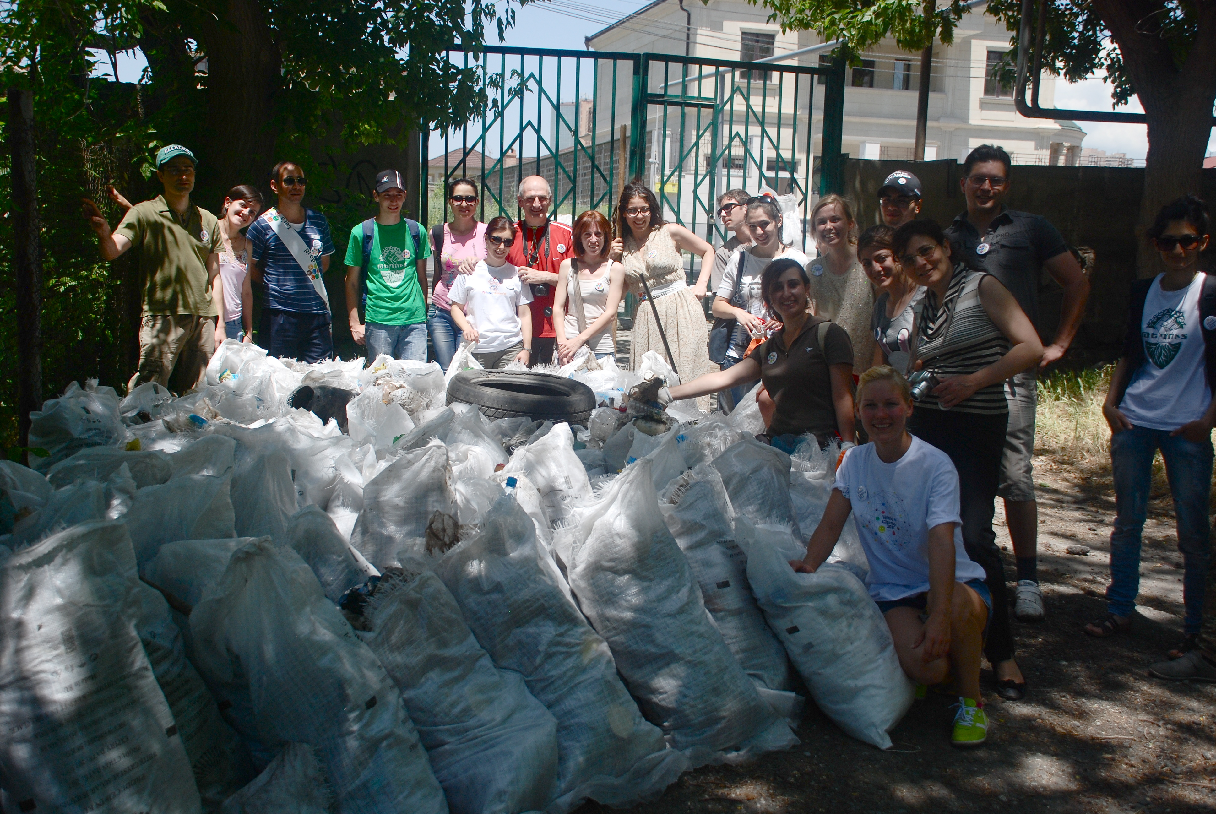 A media campaign of World Cleanup project in the framework of "Everyone is going to Yerevan 2013". The event was to present Armenians the global campaign by way of organising a model cleanup action in the Yerevan Botanic garden.